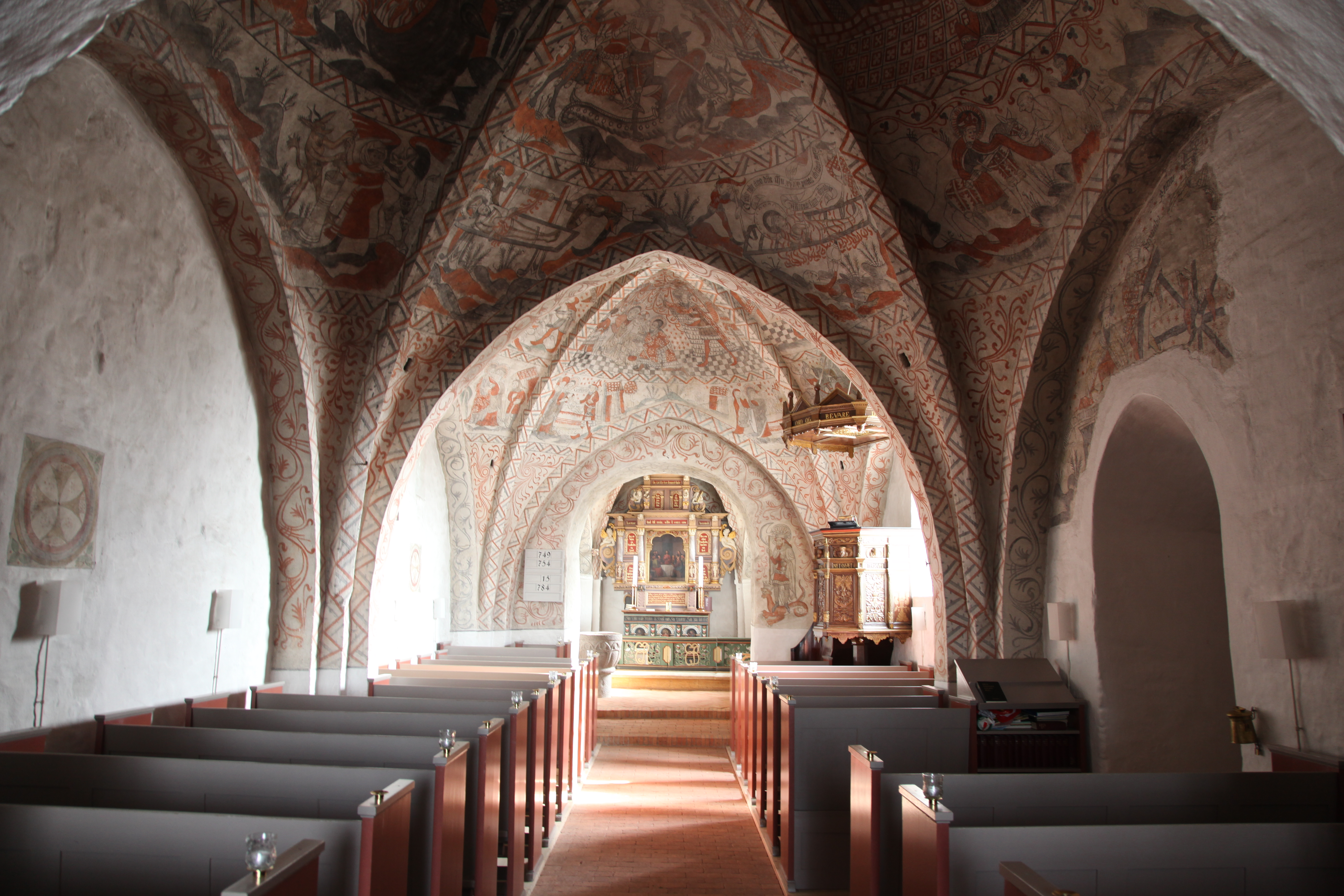 Tuse church in Denmark